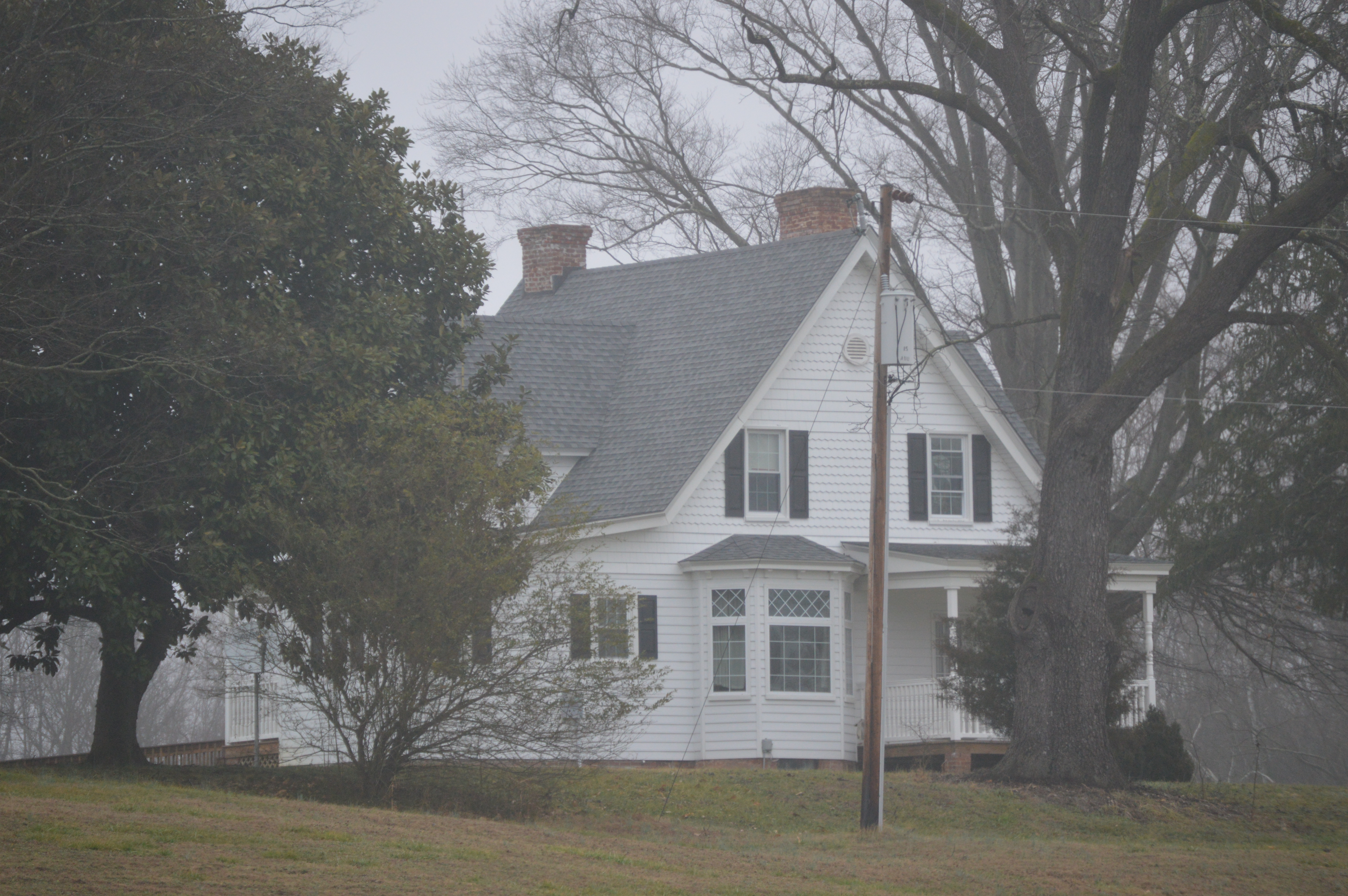 Front and western side of the Zoar farmhouse, located on Upshaw Road west of Aylett in King William County, Virginia, United States. Built in 1890, it is listed on the National Register of Historic Places.